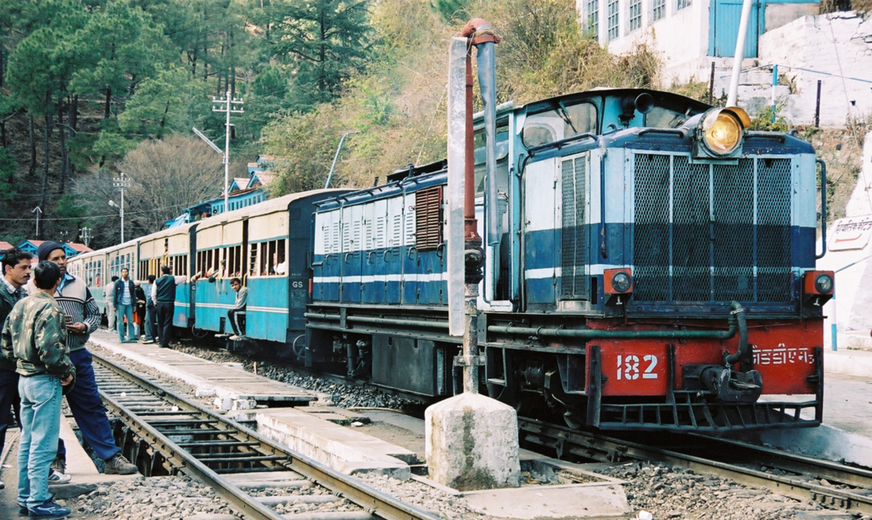 Kalka-Simla Railway. A typical passenger train at Barog Station. Trains stop here while passengers buy refreshments. The locomotive is ZDM3 No.182 12th February 2005 Photographer - A.M.Hurrell Camera - Minolta X700 (35mm film) Modified - Scanned by film developer. File size and definition changed using Adobe Photoshop 5.0LE